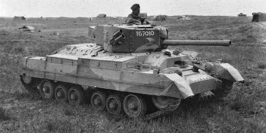 British Valentine Mk VIII tank